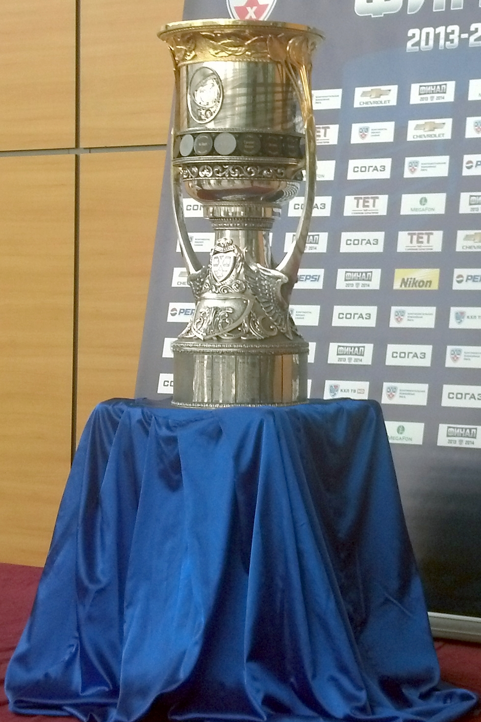 Gagarin Cup